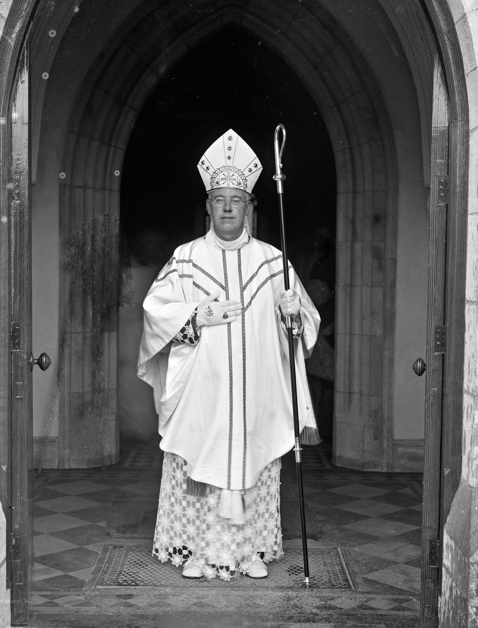 To welcome the new week we have a portrait from the Keogh Collection. This intriguing ecclesiastic capture begs a number of questions all of which I am confident that you will answer! Who was Rev Claffey? Which Church is this? Any idea of the occasion? And our faith (sorry) in getting some answers was well founded. The general concensus is that this is Dom Camillus Claffey, who was abbot of the Cistercian Mount St Joseph Abbey (near Roscrea) from 1944 to 1962. This gives us a very likely subject, possible location, and at least some pause on the catalogue date range. In a veritible "whos/who and whats/what" of eccelisiastical matters and dress, [/photos/bernardhealy/ Bernard Healy] suggests that this image captures a relatively important occasion or high-mass. Perhaps even the abott's own pontificaliacation, enhattification, inauguration, benediction, or "promotion" into abbot-hood. Maybe taken therefore in 1944. Or taken perhaps just prior (at the monastery), if taken while he was just 'Prior' (of the monastery). Photographer: Brendan Keogh Collection: Keogh Photographic Collection Date: c.1930-1940. Though perhaps sometime later in 1940s... NLI Ref: Ke 301 You can also view this image, and many thousands of others, on the NLI’s catalogue at